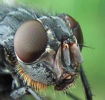 Close-up of the head of a blow-fly (Calliphora sp.) Same specimen, top view: Photo by Jens Buurgaard Nielsen. Location: The Hague